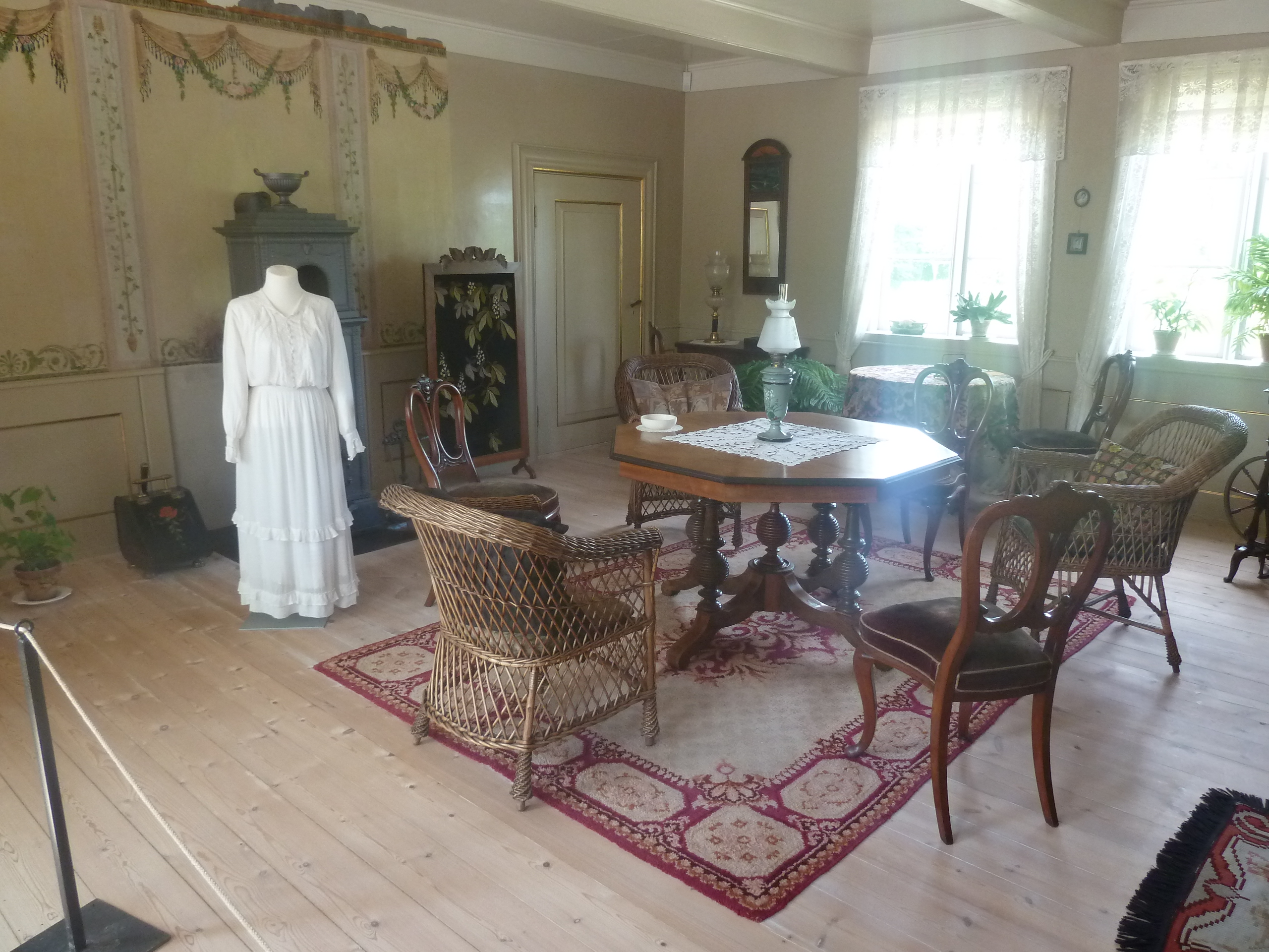 Manor from Fjellerup, Djursland, now on Frilandsmuseet (the open air museum) north of Copenhagen.